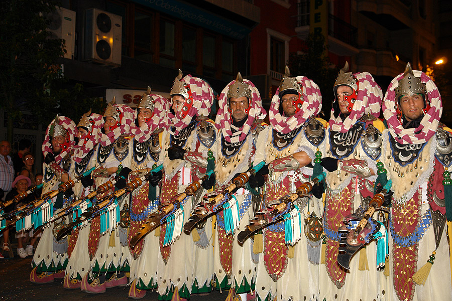 Elche in Agost